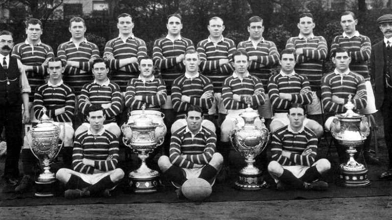 Players of rugby league team, Huddersfield, posing with the four trophies won that season: Division 1 (league), Challenge Cup, Yorkshire League, among them.